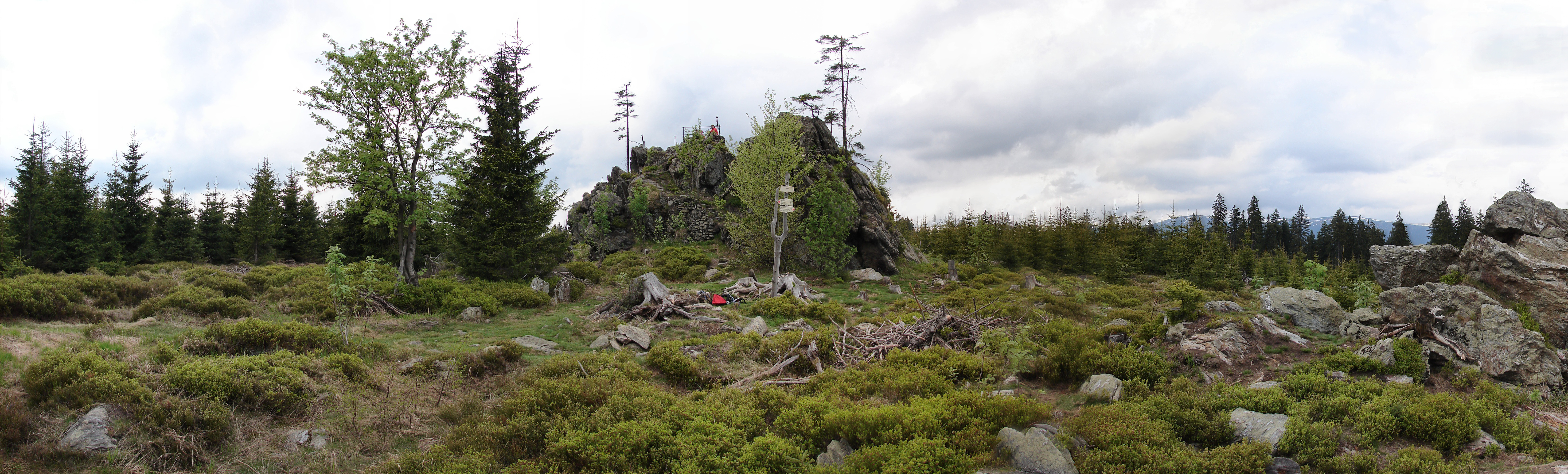 Panoramatic view of the Šeřín's summit in the Giant Mountains (Krkonoše)